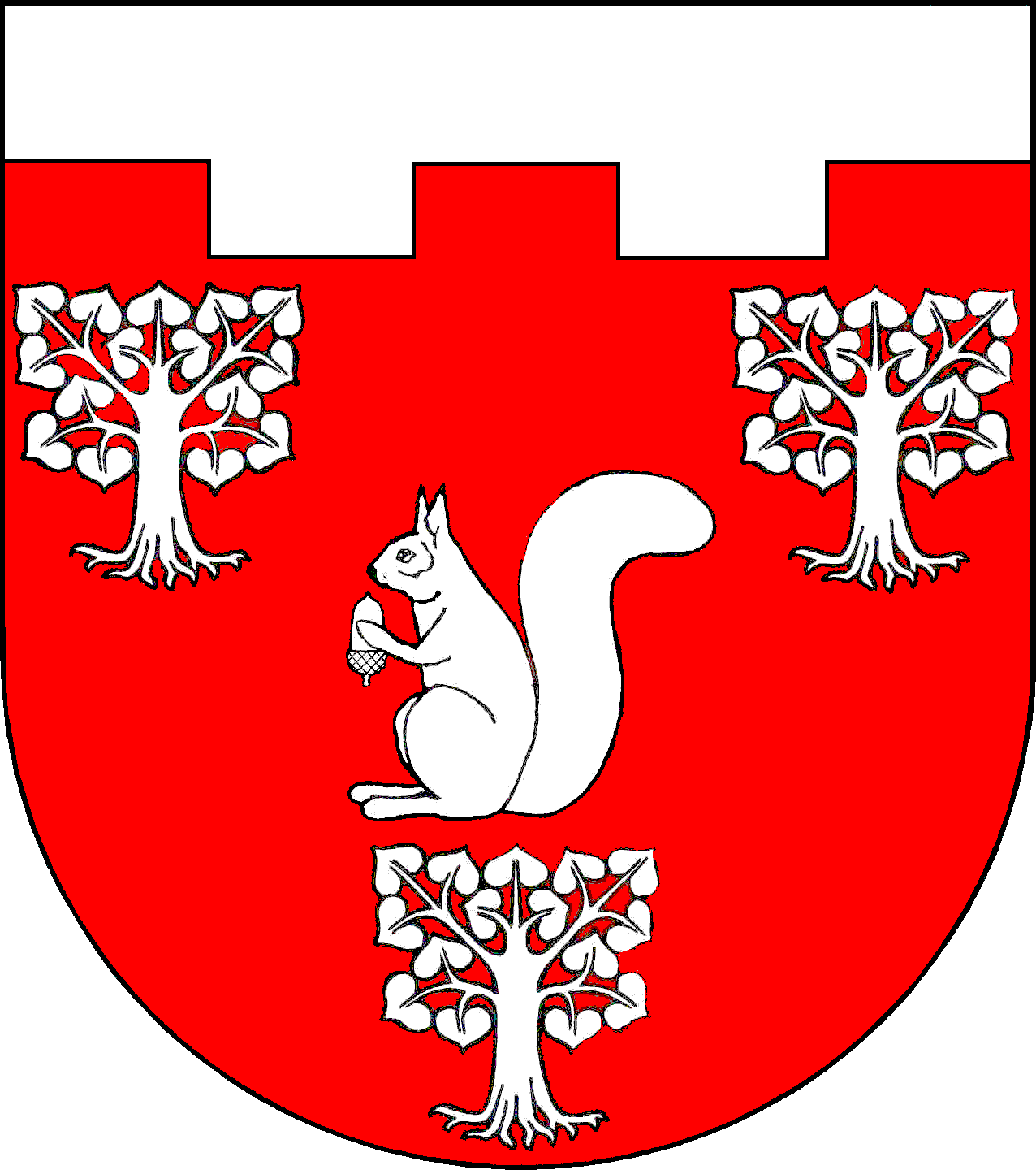 Coat of arms of the municipality Emkendorf in Schleswig-Holstein, Germany.